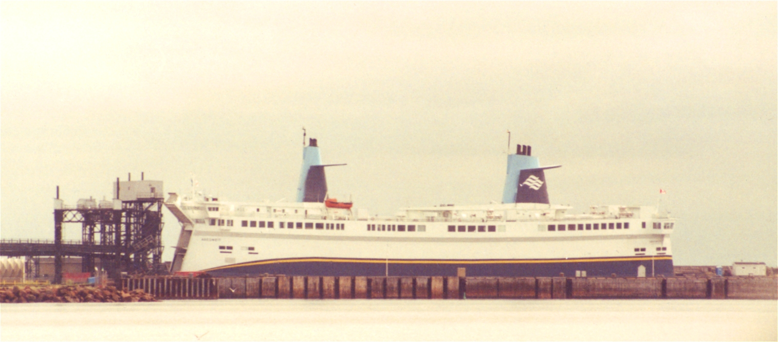 Long view of the MV Abegweit ferry at Cape Tormentine, New Brunswick.